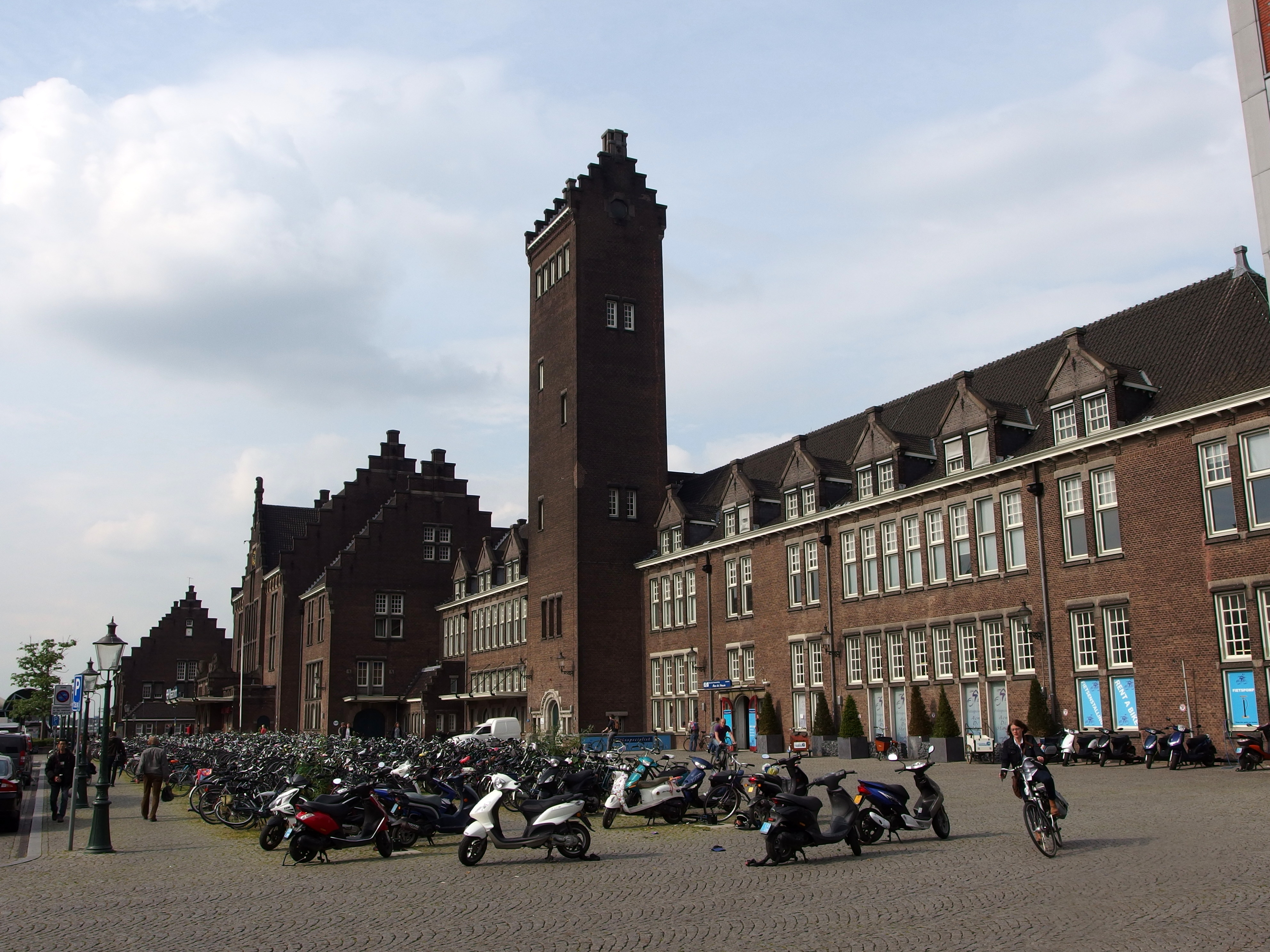 20140526 in Maastricht at Central Station Maastricht.